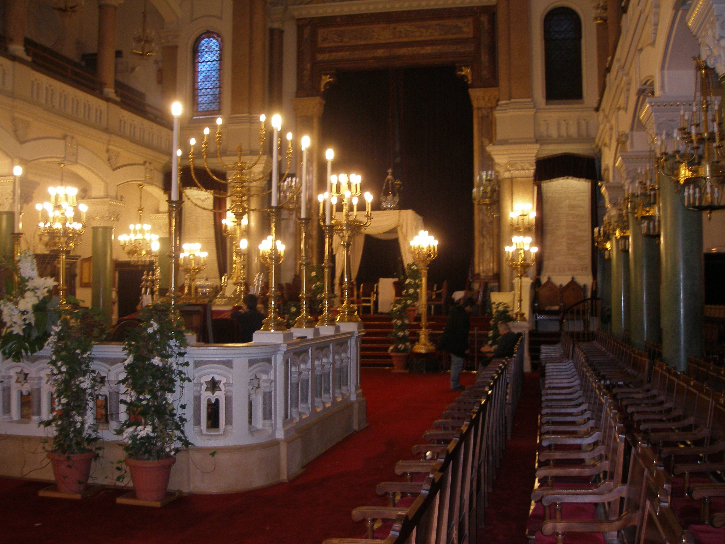 Buffault Synagogue, Paris